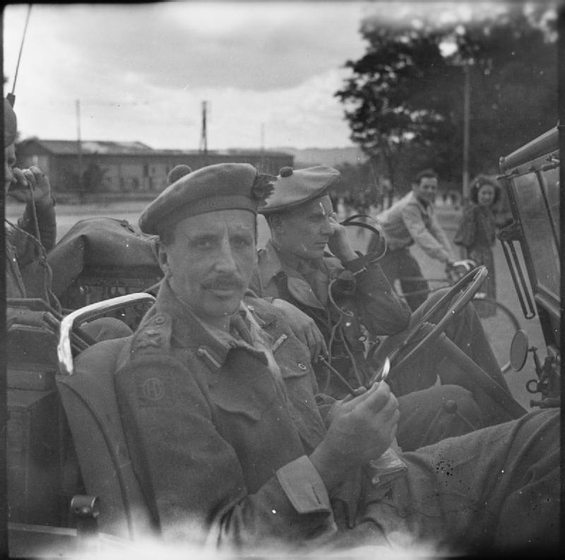 The British Army in North-west Europe 1944-45 Major General T G Rennie, GOC 51st (Highland) Division, in a jeep in Rouen, 2 September 1944.